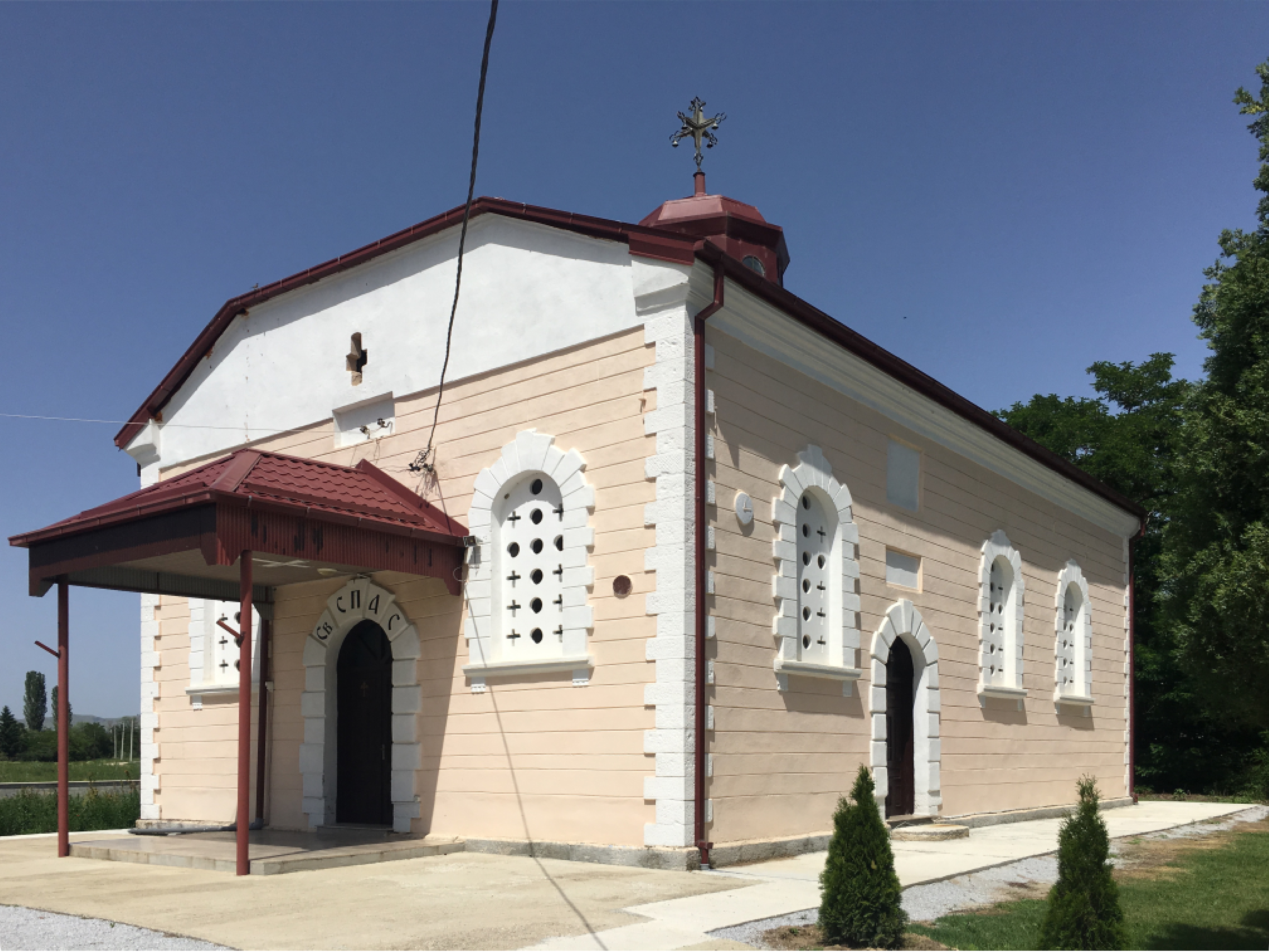 Church of the Ascension of Christ in the village of Dobruševo